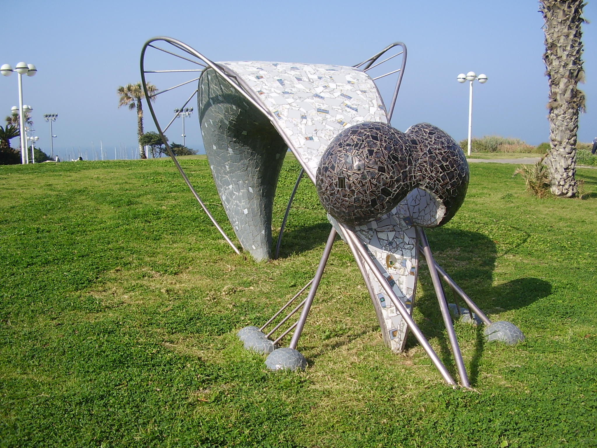 "Mosquito" by Ruslan Sergeev in Tel Aviv